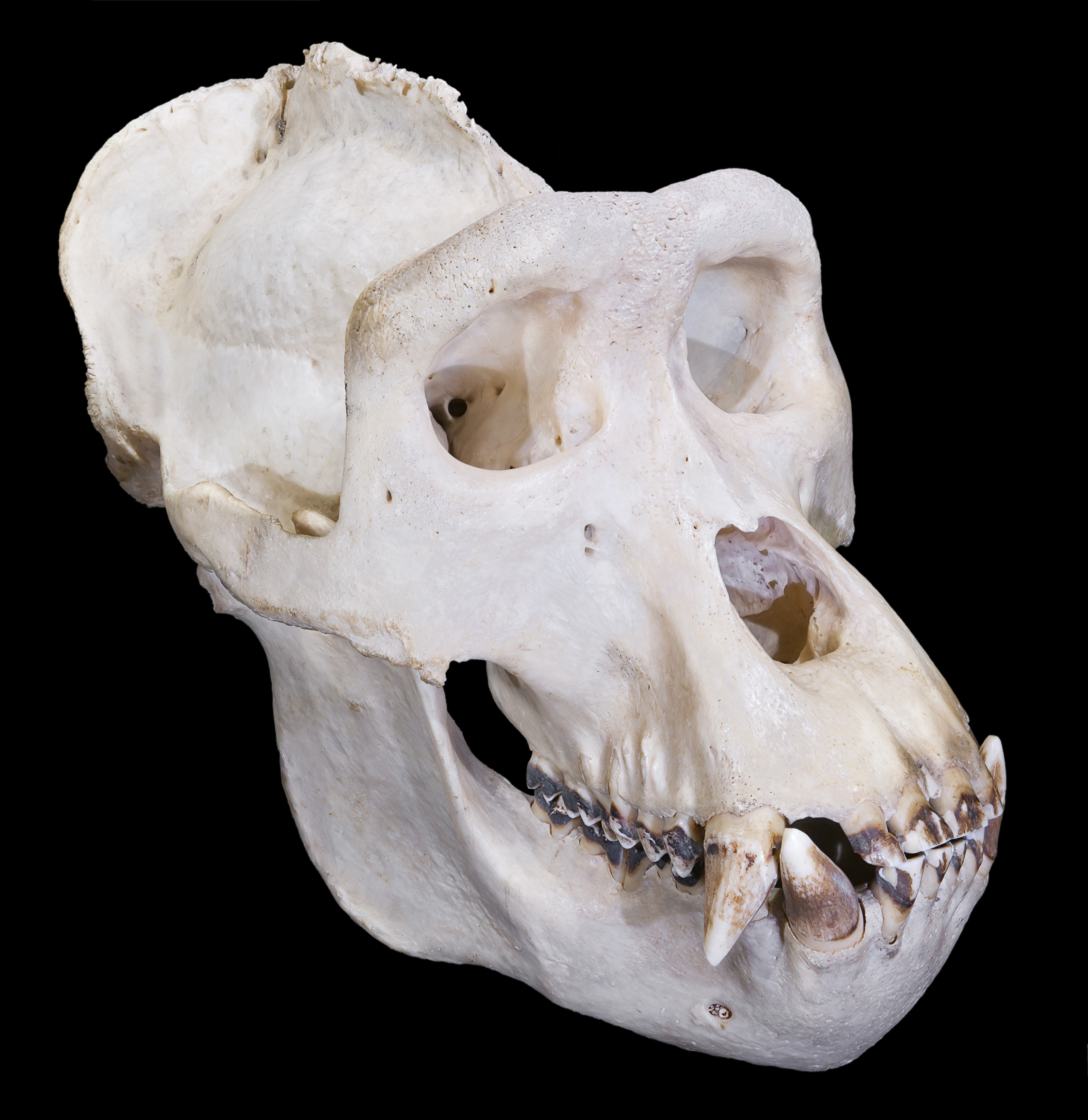 Western Gorilla Gorilla gorilla (Savage, 1847) - Male - (View 3/4) Locality : Gabon, Haut-Ogooué Province, Chakès Size : 26 × 23 × 18cm